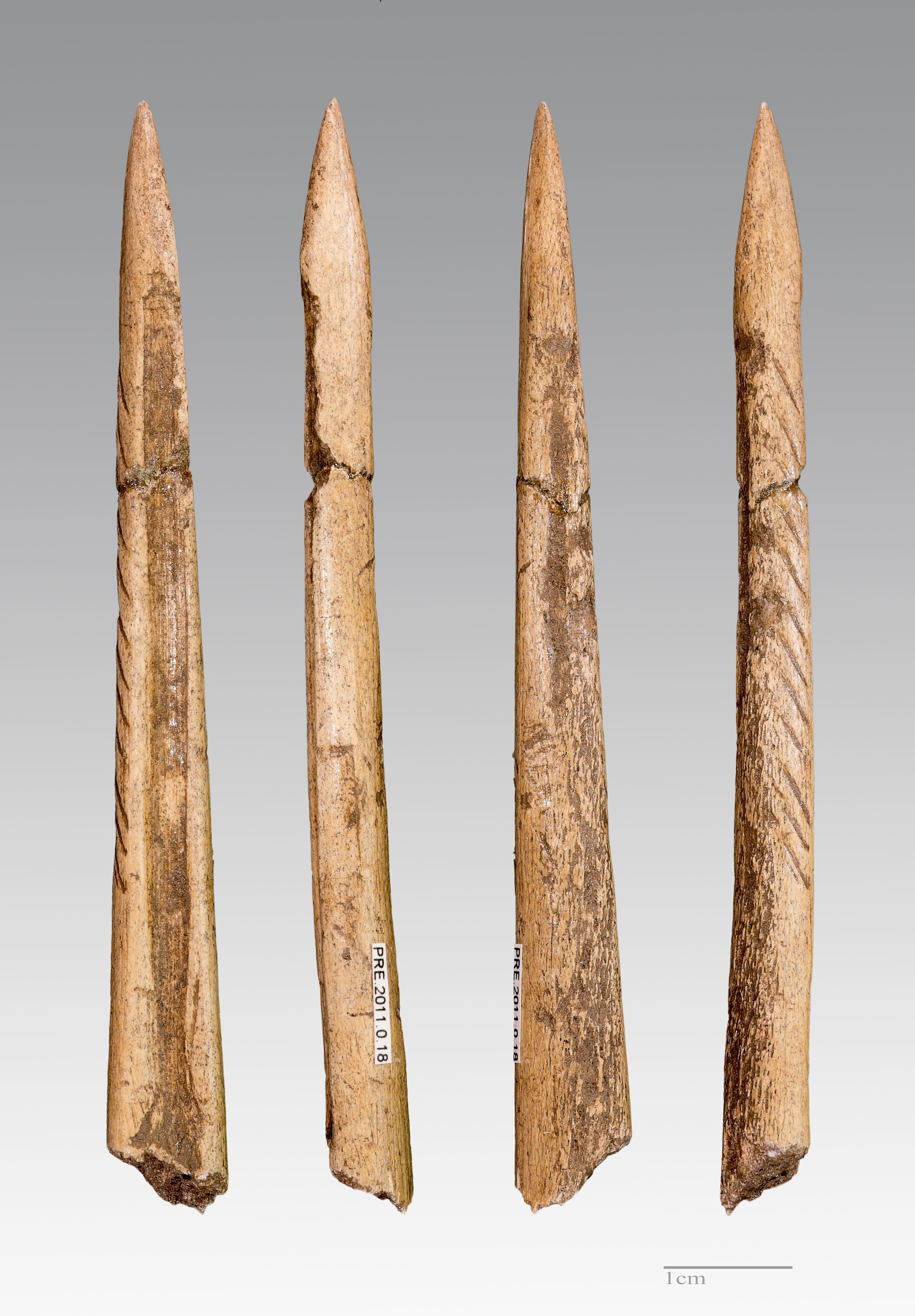 Javelin head